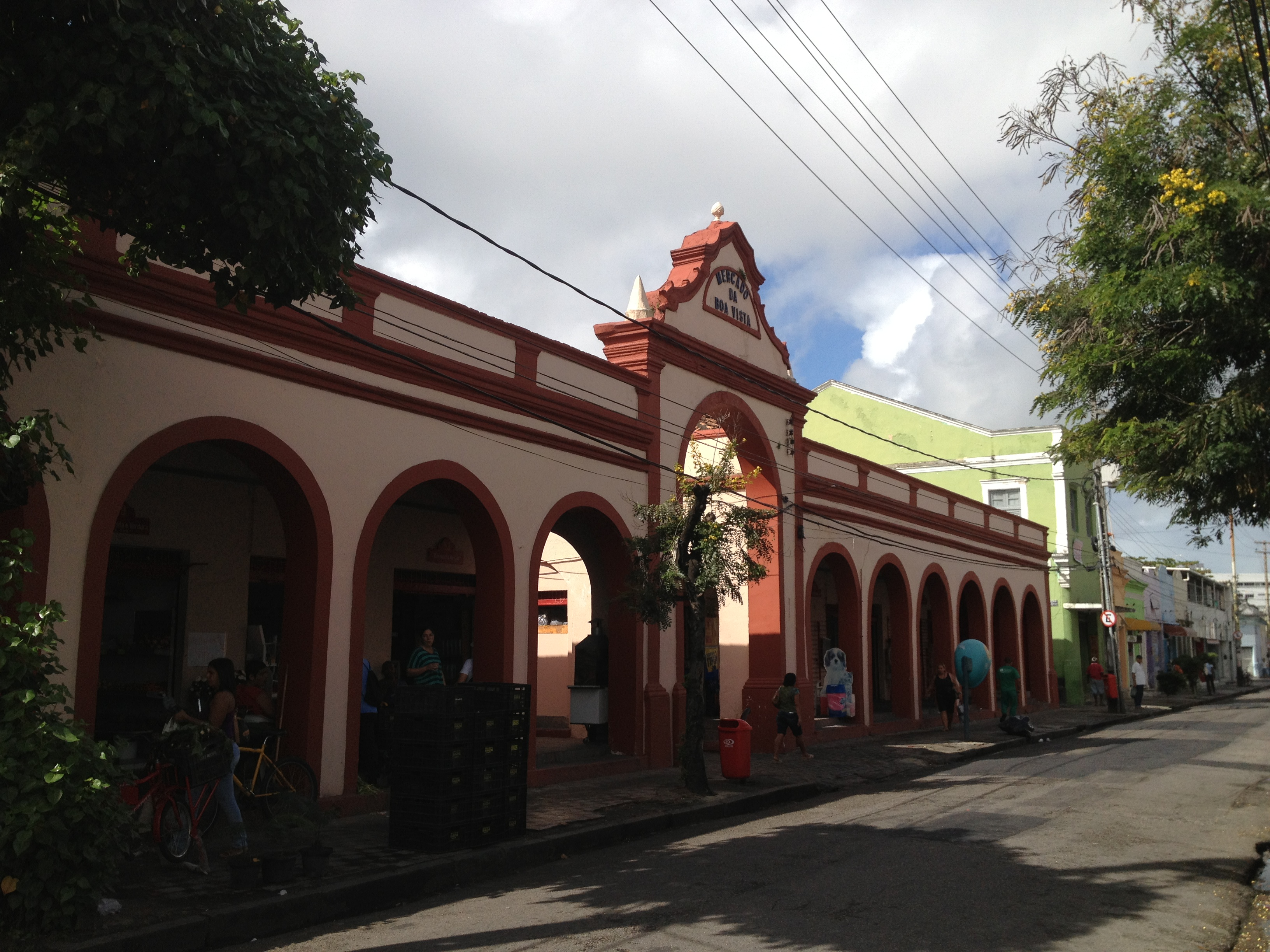 Boa Vista's Market in the city of Recife, state of Pernambuco, Brazil.